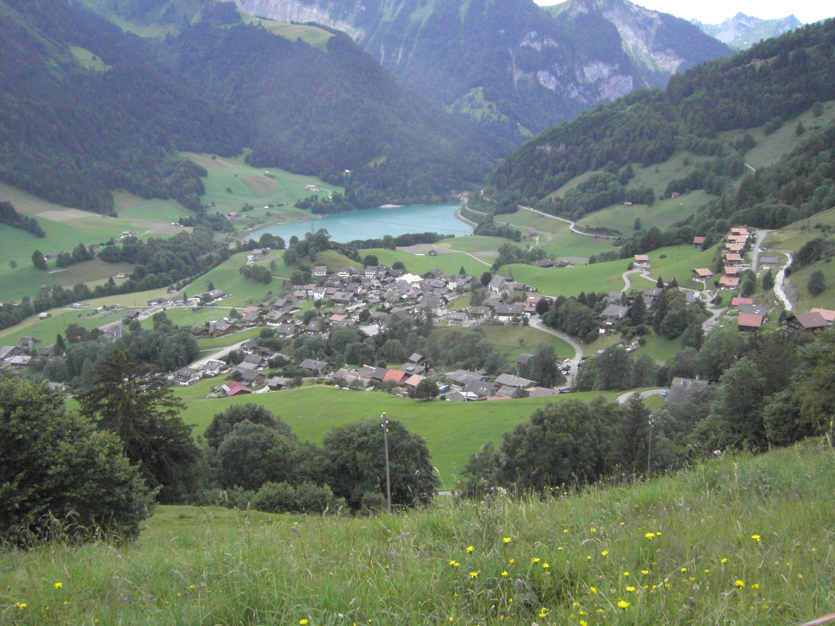 The village of Rossinière (canton of Vaud, Switzerland). The lake in the background is the Lac du Vernex.